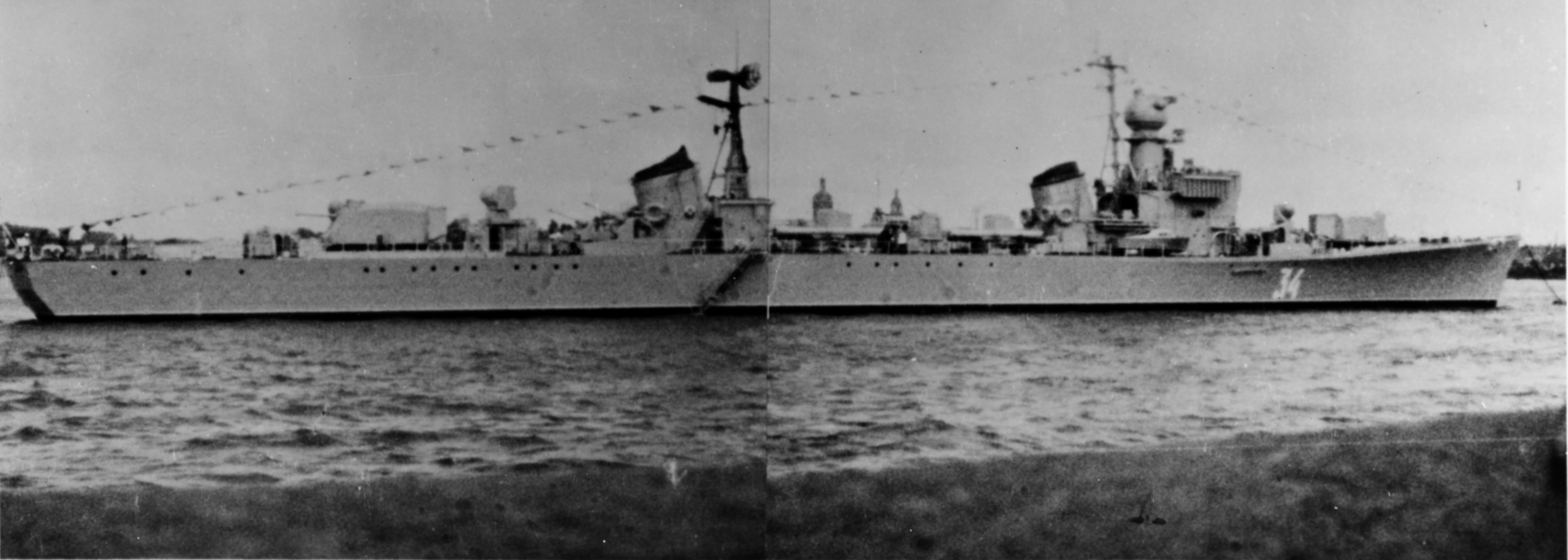 Soviet destroyer Neutrashimyy at anchor 1955